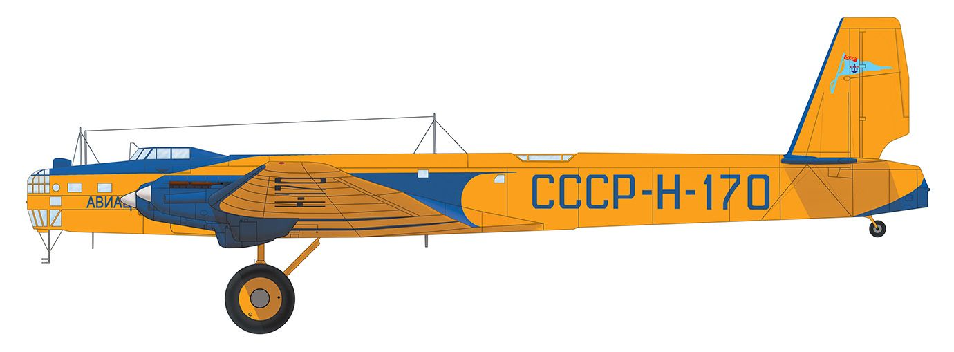 Tupolev ANT-6A of the special group Glavsevmorput (GUSMP)